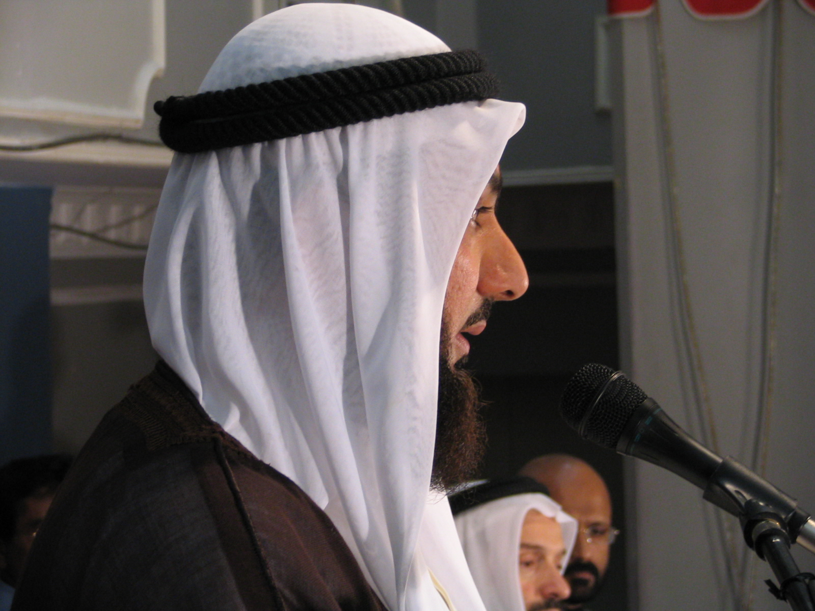 Bahraini man wearing Agal. Photographed by Shijaz (myself).